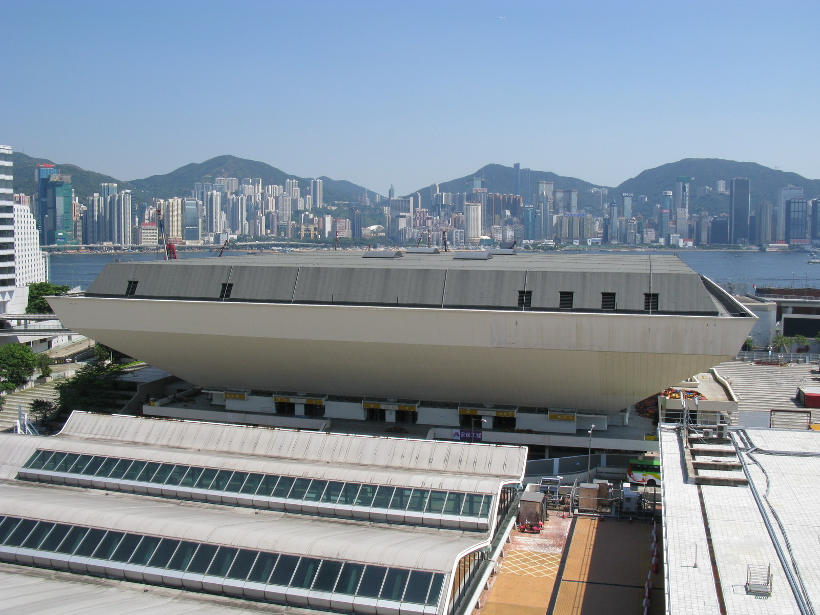 Hong Kong Coliseum & Causeway Bay (aerial view)